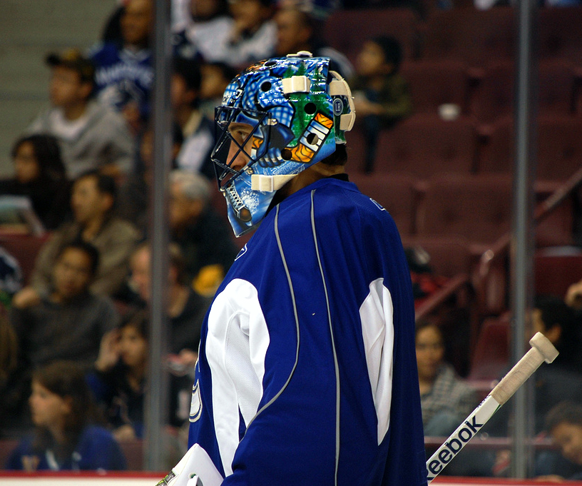 Vancouver Canucks Captain, Roberto Luongo Open Practice; Vancouver Canucks @ GM Place